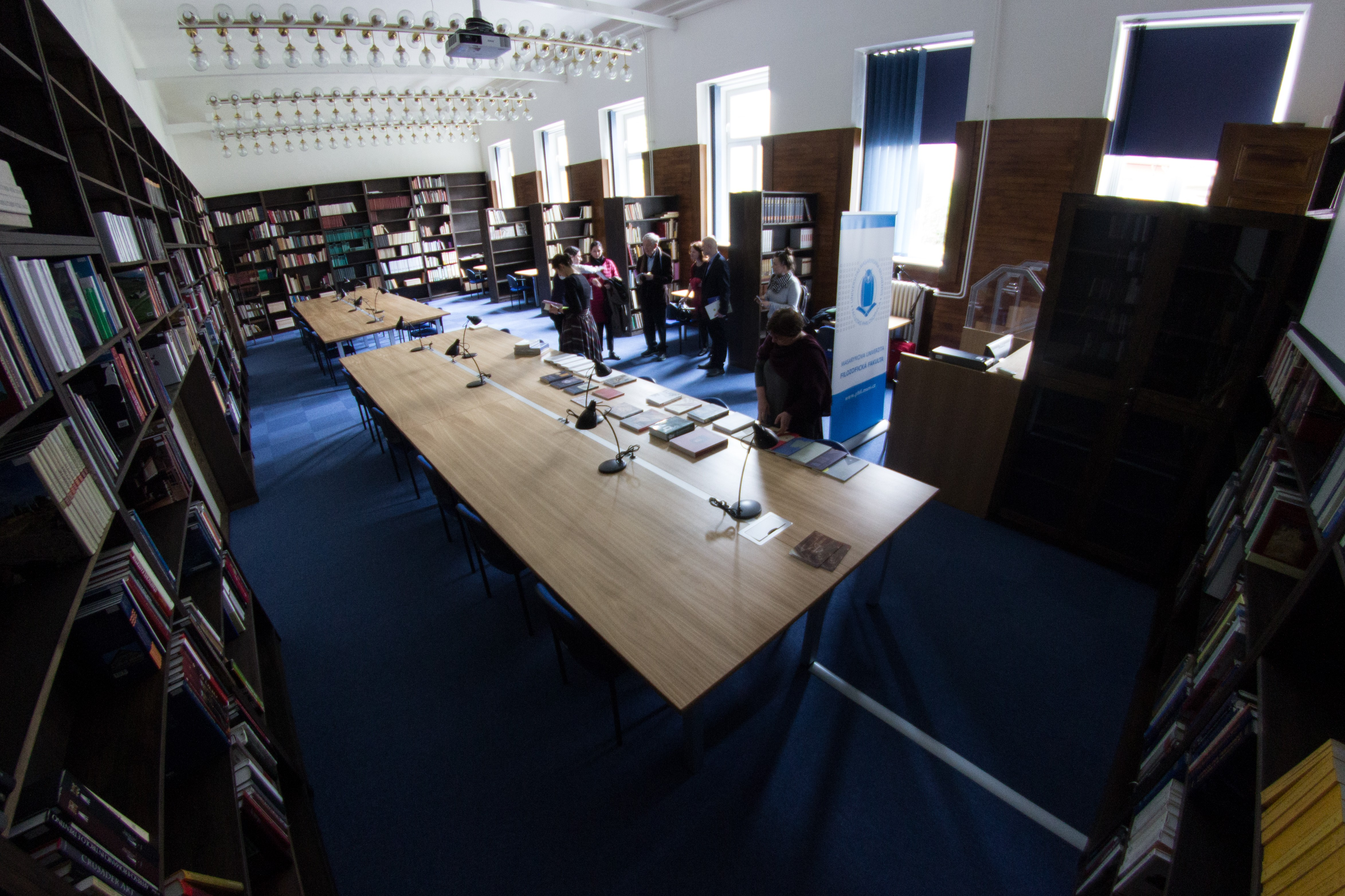 Ceremonial opening of Hans Belting Library in building of Faculty of Arts of Masaryk university in Brno, Czech republic. Hans Belting himself was present. 19.4.2016